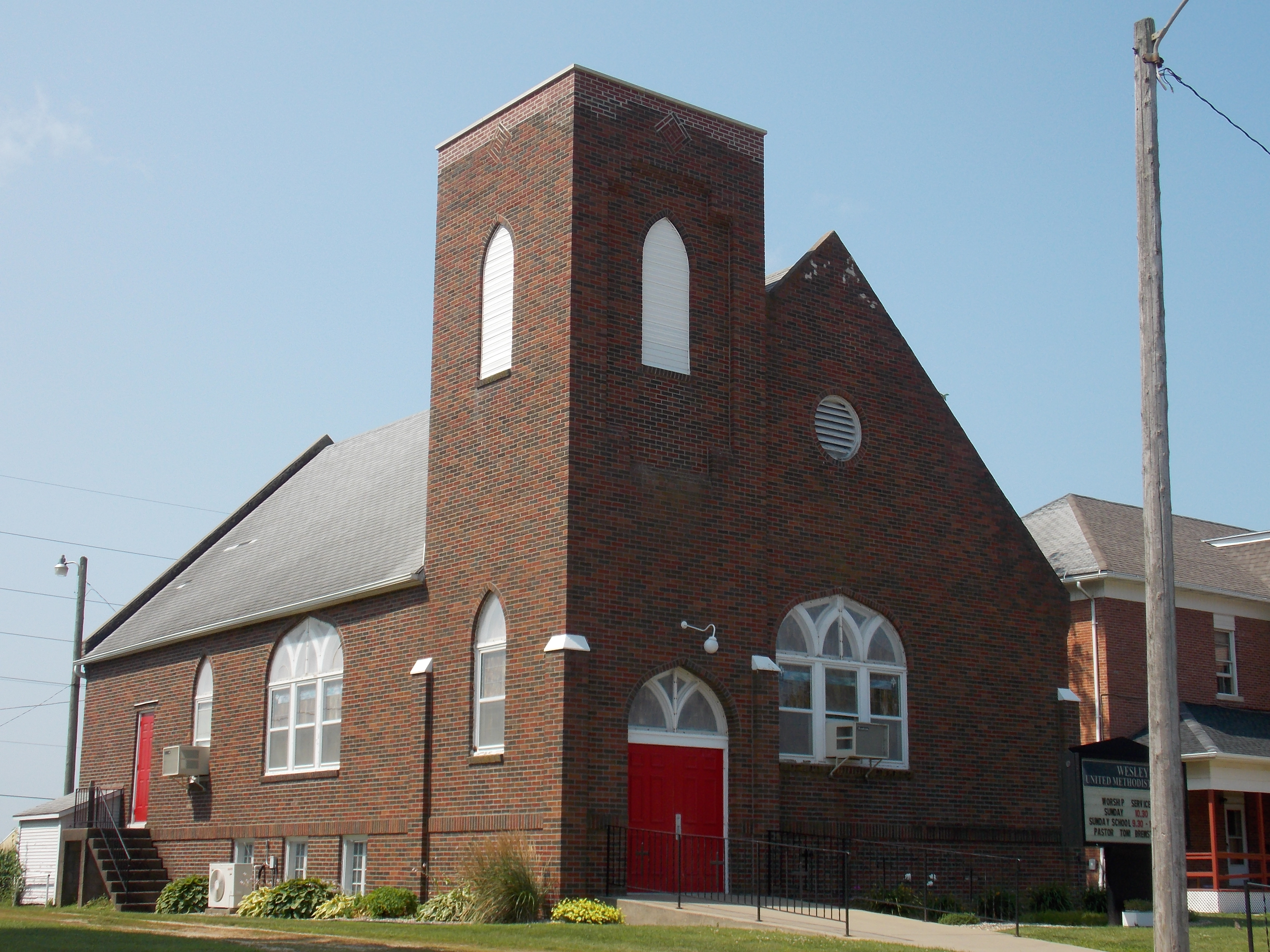 Wesley United Methodist Church in Calamus, Iowa